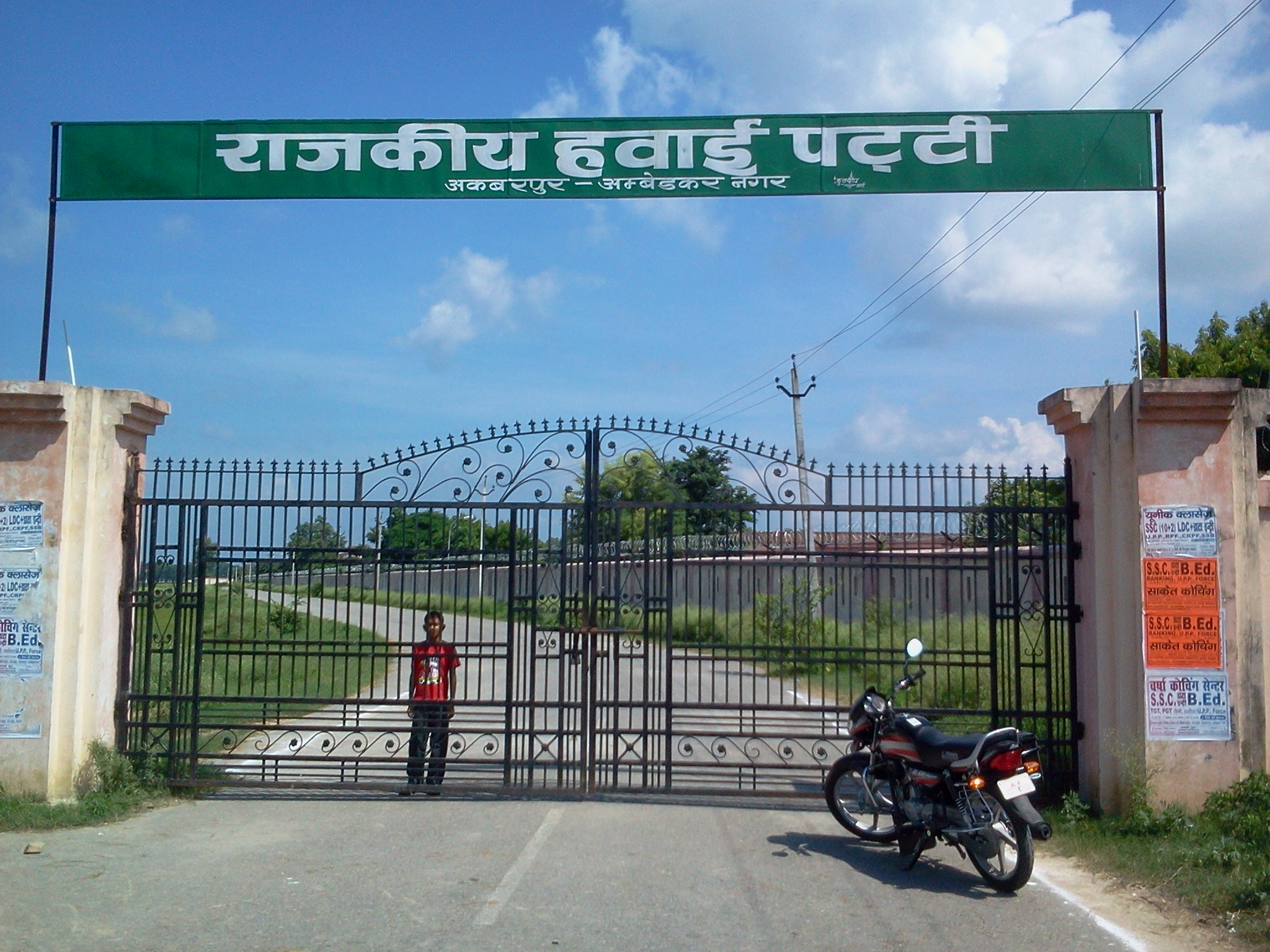 Akbarpur Airstrip in Uttar Pradesh, India. Signboard reads: State Airstrip Akbarpur – Ambedkar Nagar